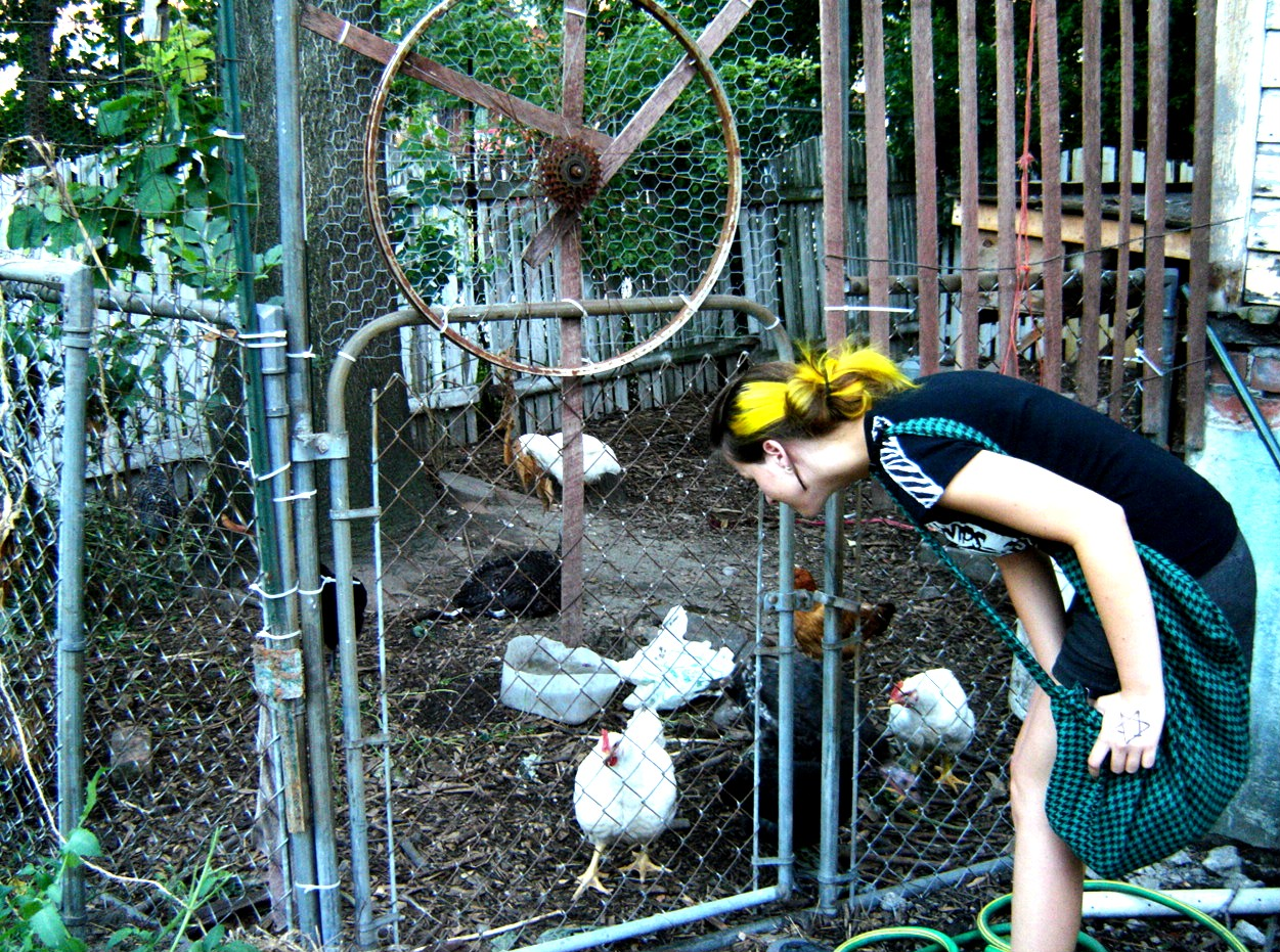 Chicken coop at the Trumbullplex, Detroit in the summer of 2006.Monica & The Fowl